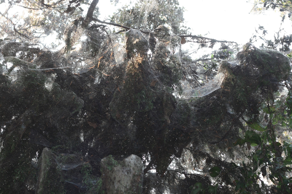 Photos of the 200 yard spider web found in Lake Tawakoni State Park, East Texas